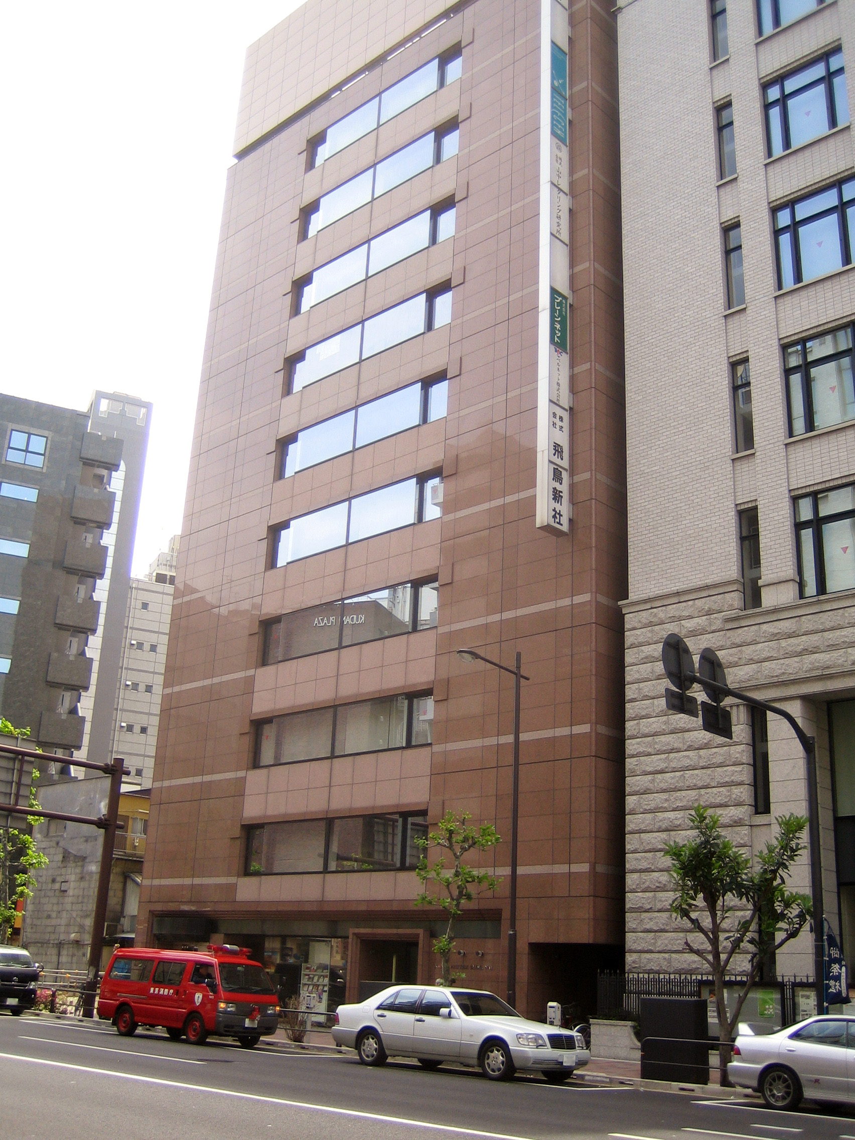 Asukashinsha Publishing (飛鳥新社), at Kanda-Jinbocho, Chiyoda, Tokyo, Japan